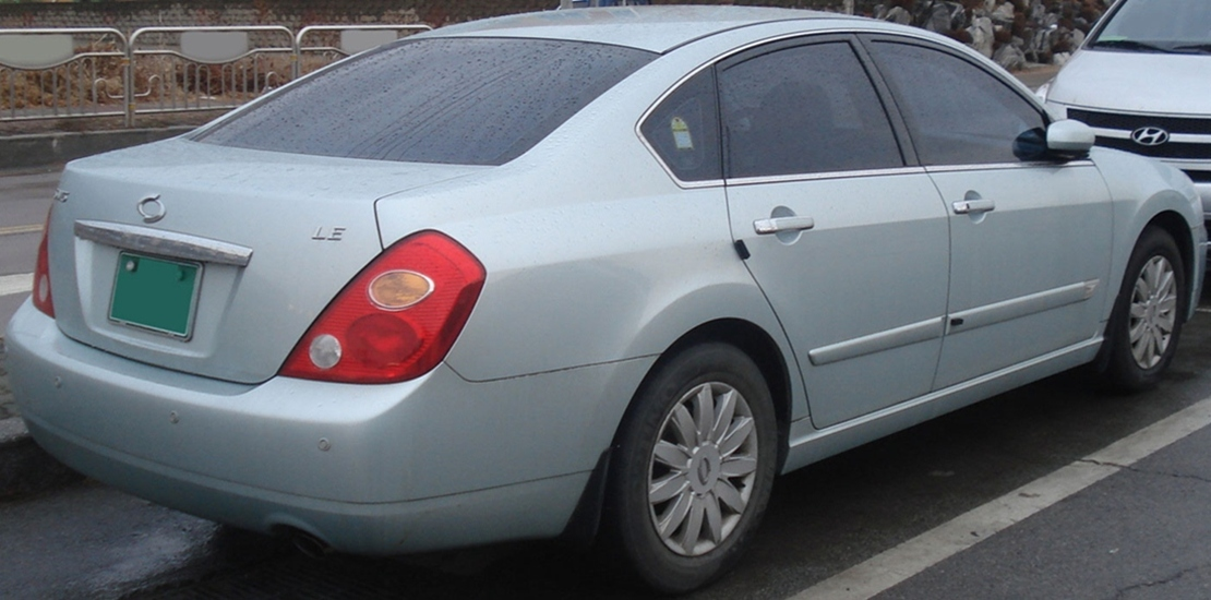 Renault Samsung New SM5